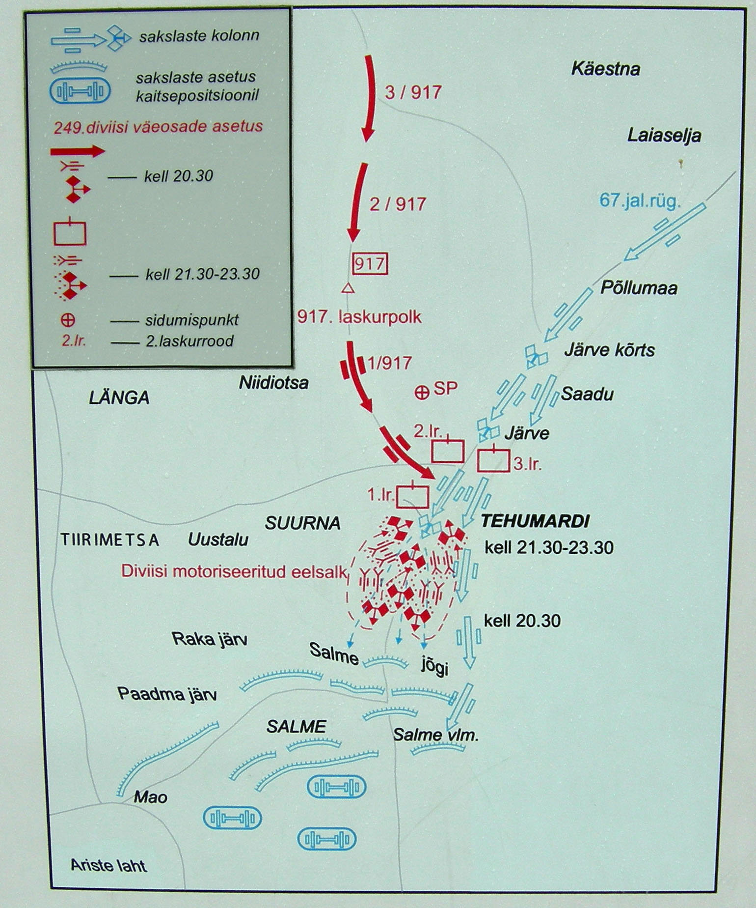 Battle map, 1944 Tehumardi battle site, Saaremaa, Estonia.